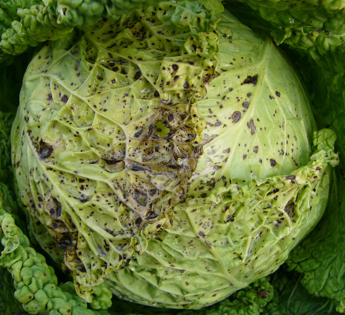 Turnip yellow mosaic virus on cabbage (Brassica oleracea). Locality: CZ, Moravia, Olomouc, Bělidla, garden.